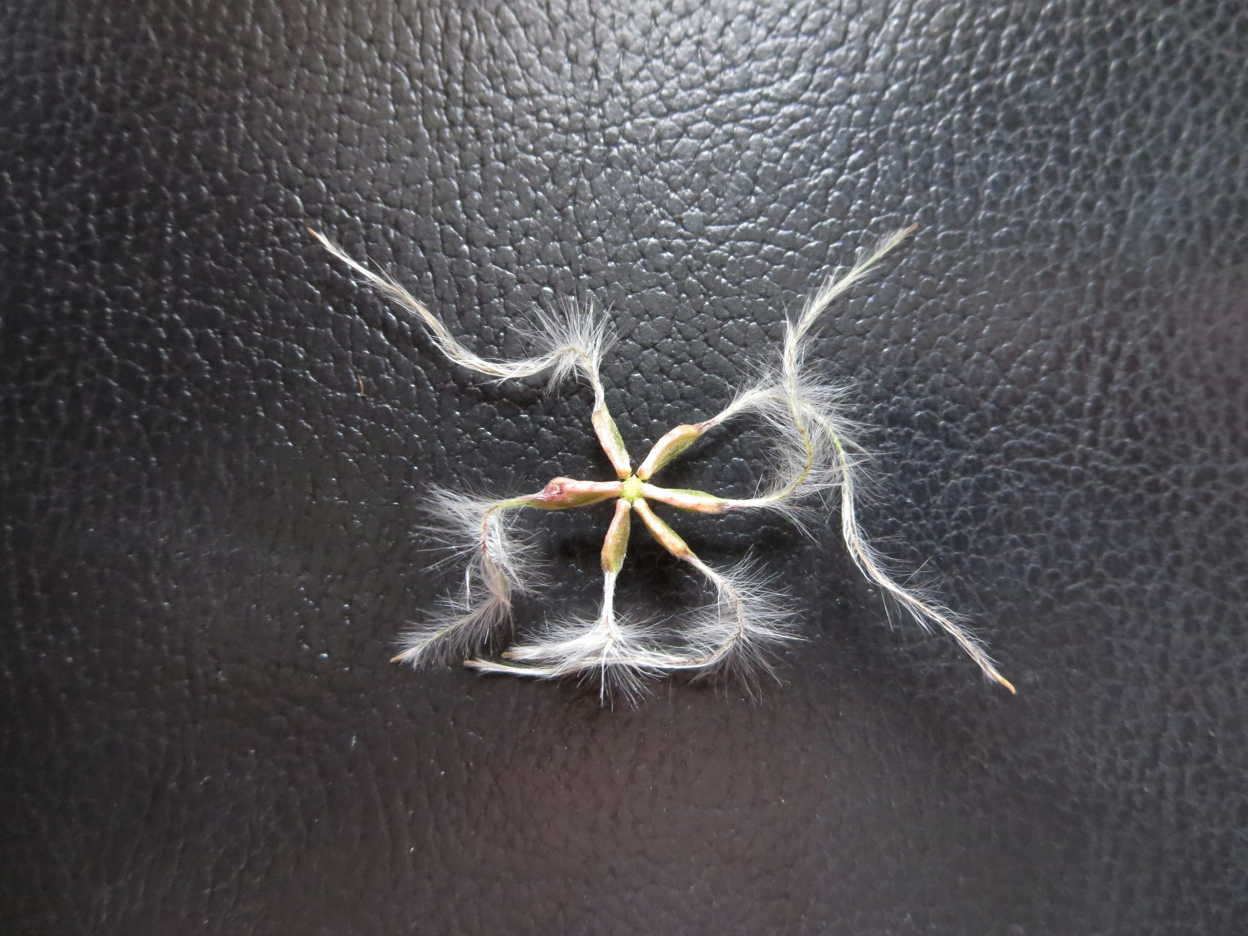 Clematis terniflora fruit (seed) cluster with 'feathery' tails attached to each seed.